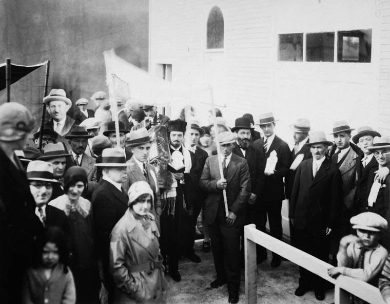 Dedication of the new Synagogue, Kirkland Lake, Ontario. Rabbi Joseph Rabin carrying the Torah. At least one image here (near upper left) is obviously collaged in.